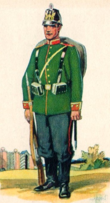 Royal Prussian Jäger batallion No. 1 Ortelsburg. Oberjäger (Corporal) in battle dress round about 1910